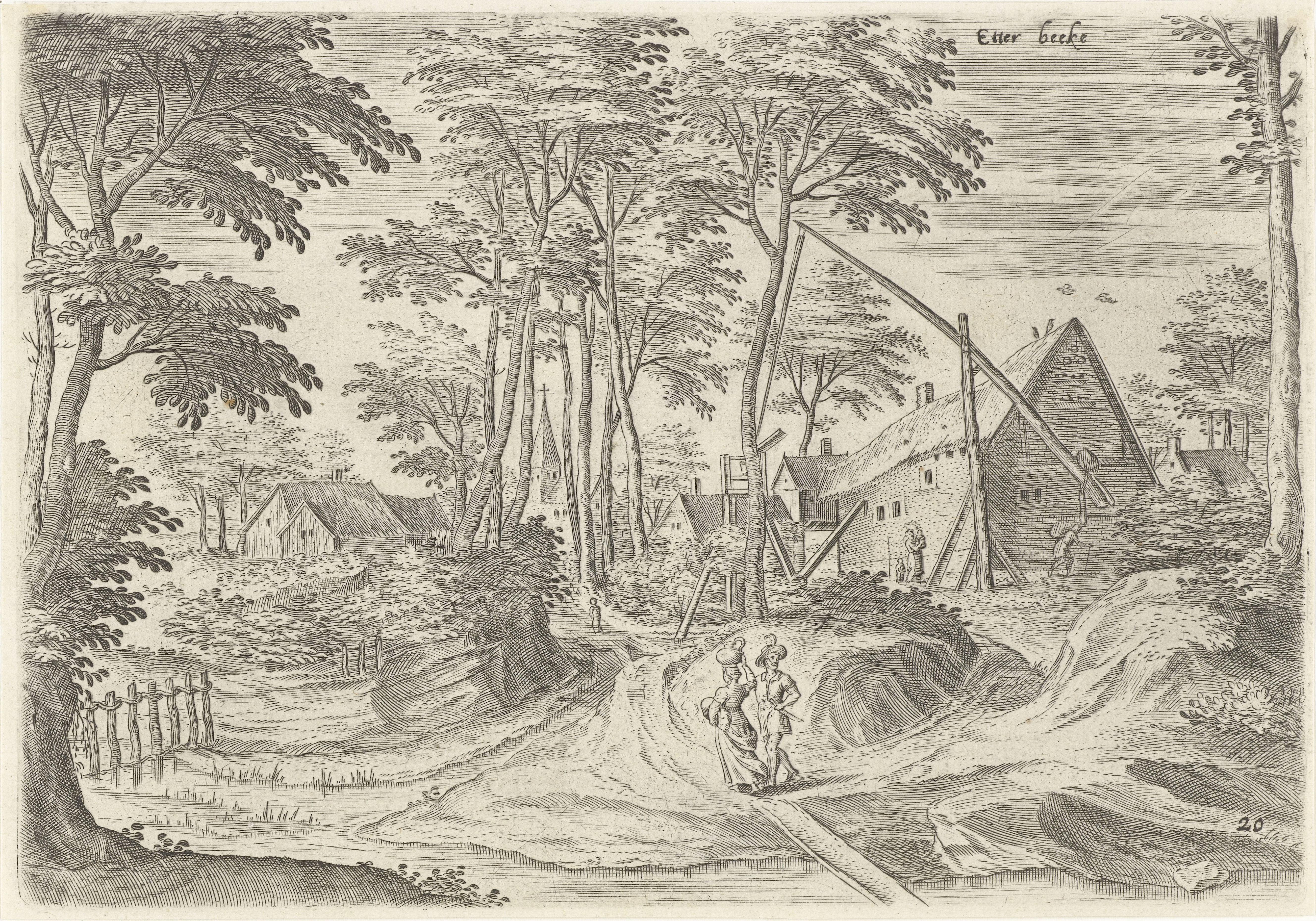 Etching by Hans Collaert (I) after Hans Bol-Jacob Grimmer, from a series of 24 views of Brussels and surroundings, published by Claes Jansz. Visscher (II) in the 16th century.